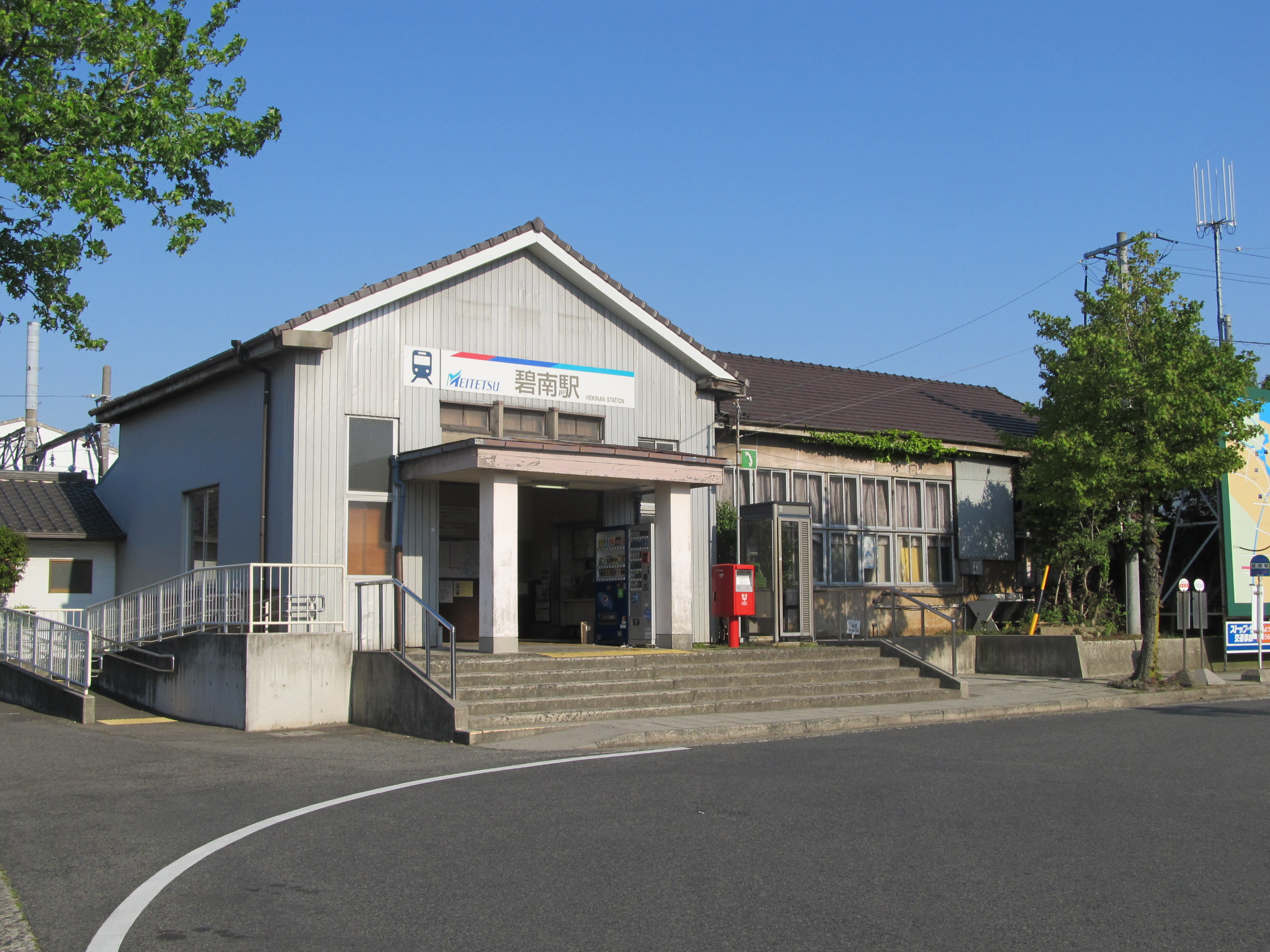 Nagoya Railroad Mikawa Line Hekinan Station Building